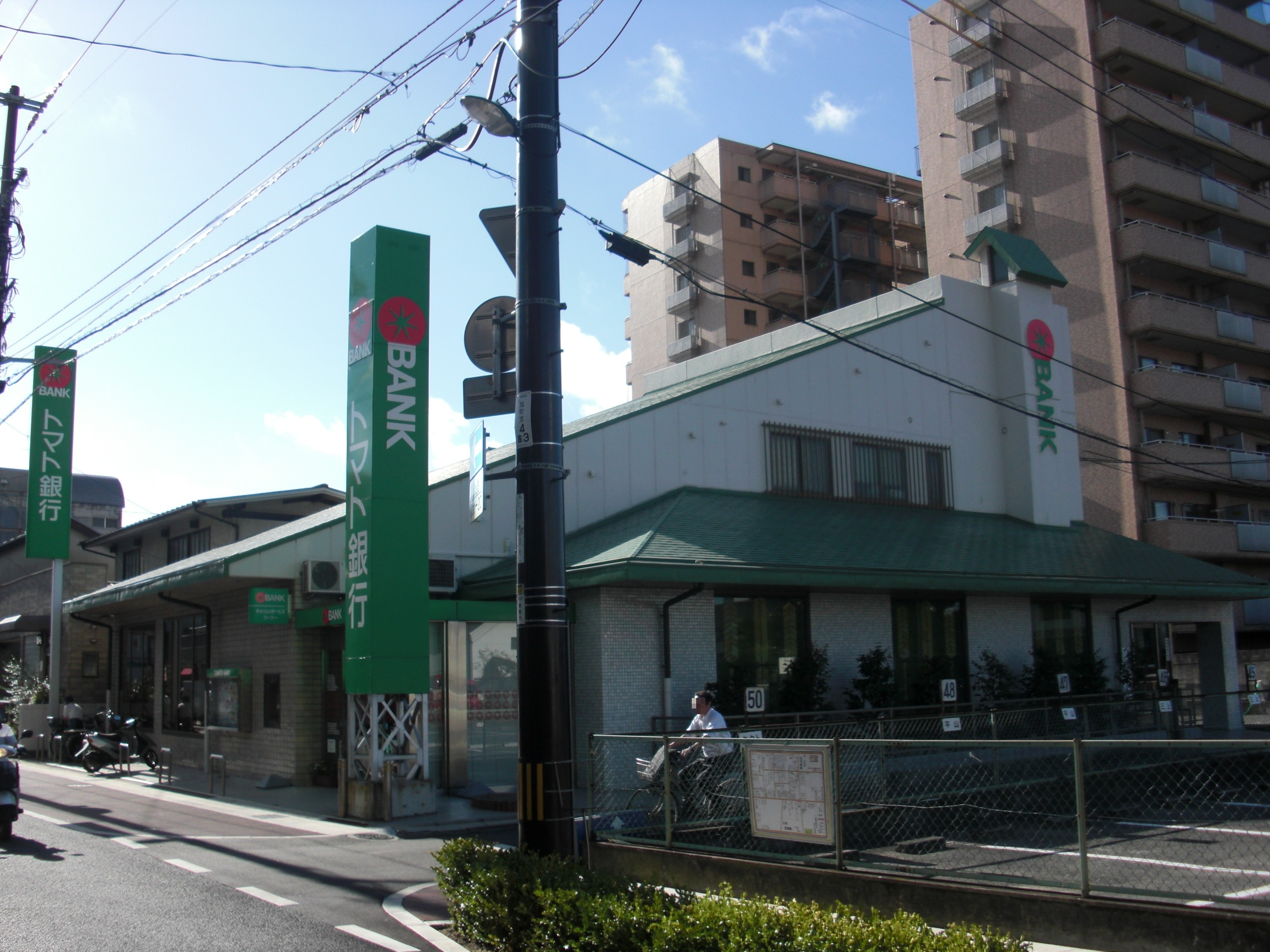 This is the Tomato Bank Tsurugata Branch (Former Kurashiki Branch) in Kurashiki, Okayama, Japan.